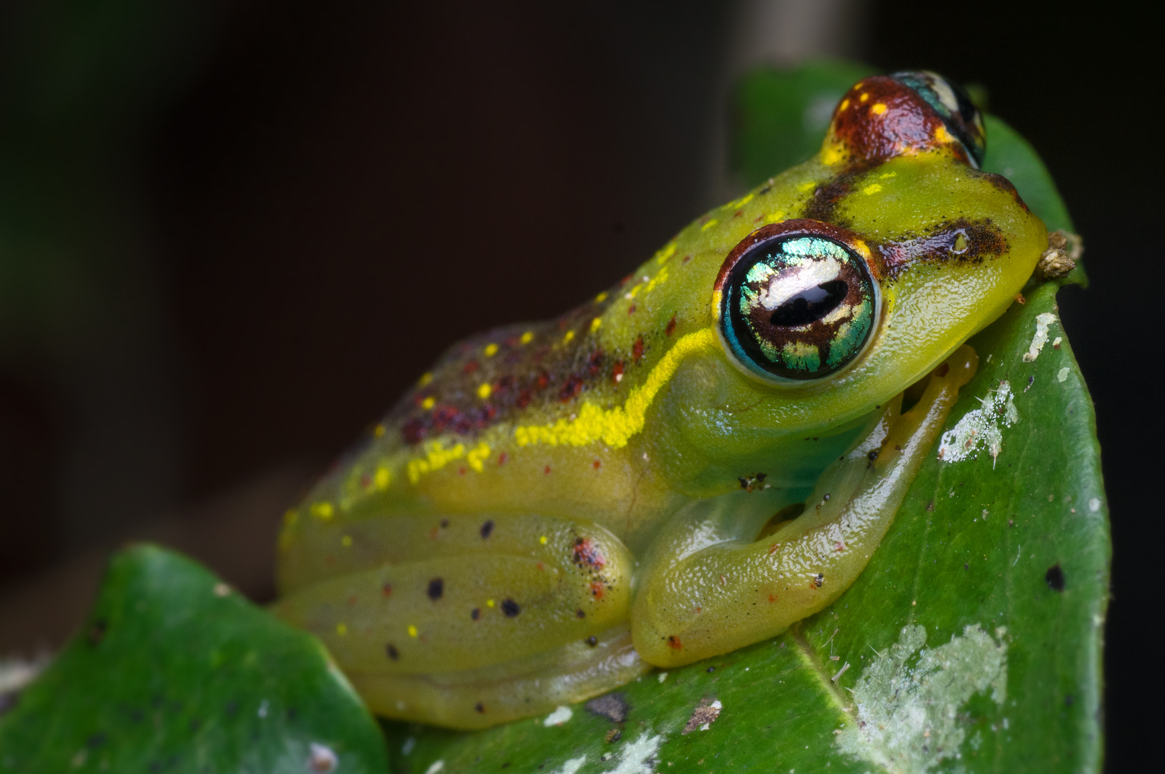 A species with vernacular name of tree skeleton frog. Found in Andasibe forest, Madagascar. Here a clear view of their strange eyes.